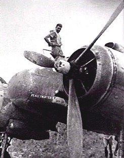 COOMALIE, NT 1942. WING COMMANDER C. F. READ STANDING IN THE COCKPIT OF A BEAUFIGHTER AIRCRAFT, `FEAU BIGHTER', OF NO. 31 SQUADRON RAAF.